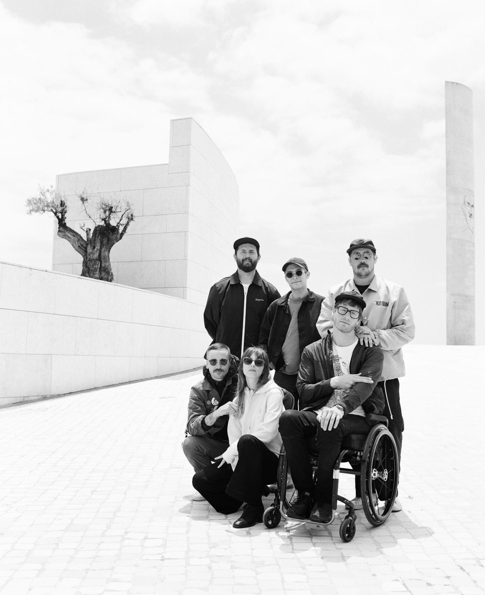 Portugal. The Man from 2020